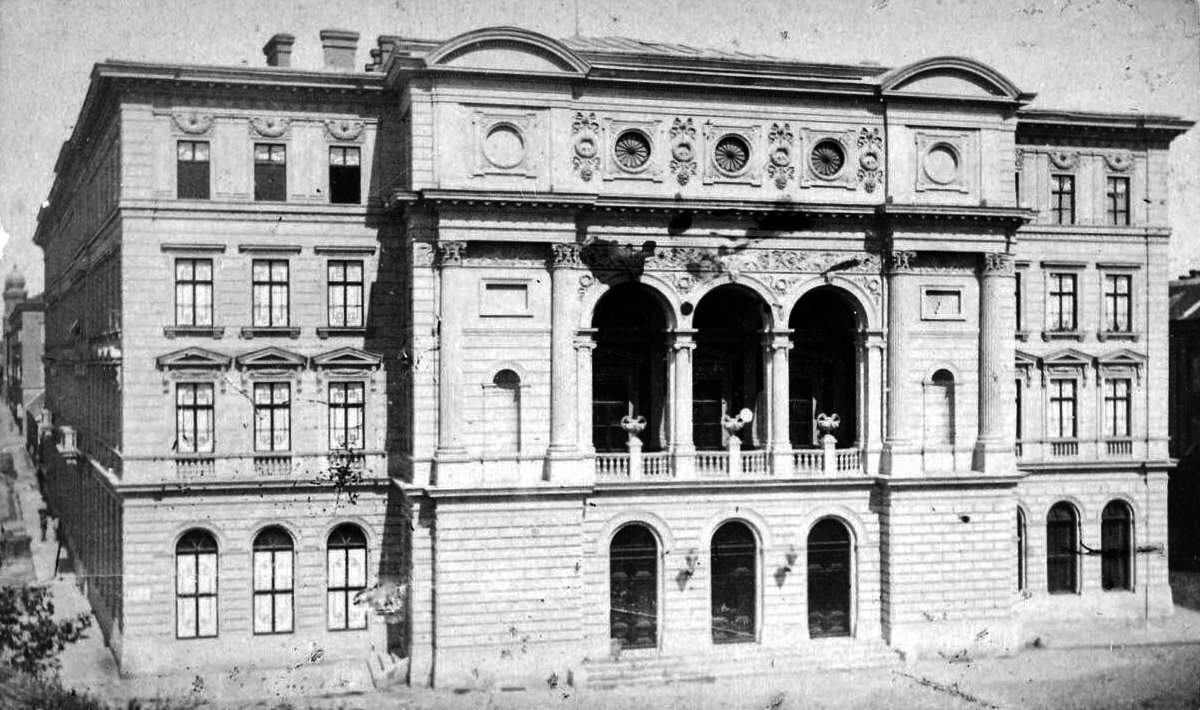 Franz Joseph Theater, Timișoara, Romania, built 1875.